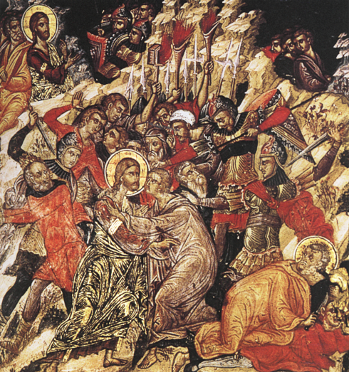 Betrayal of Judas, Franco Katelano